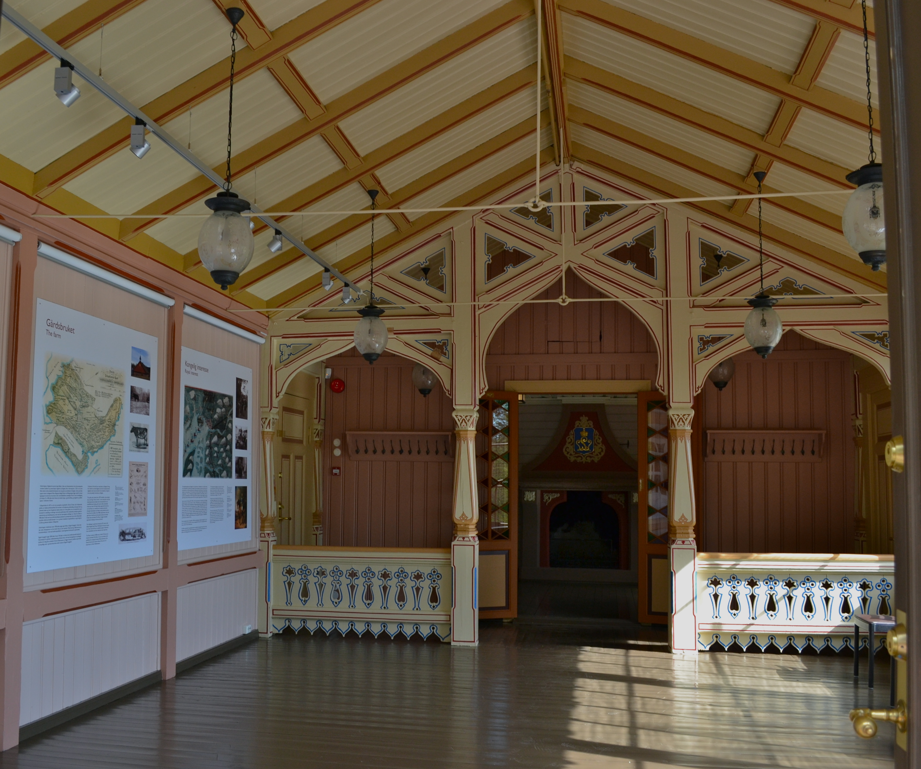 Interior, The Queen´s Chalet, Bygdøy, Norway